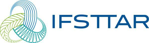 Logo IFSTTAR